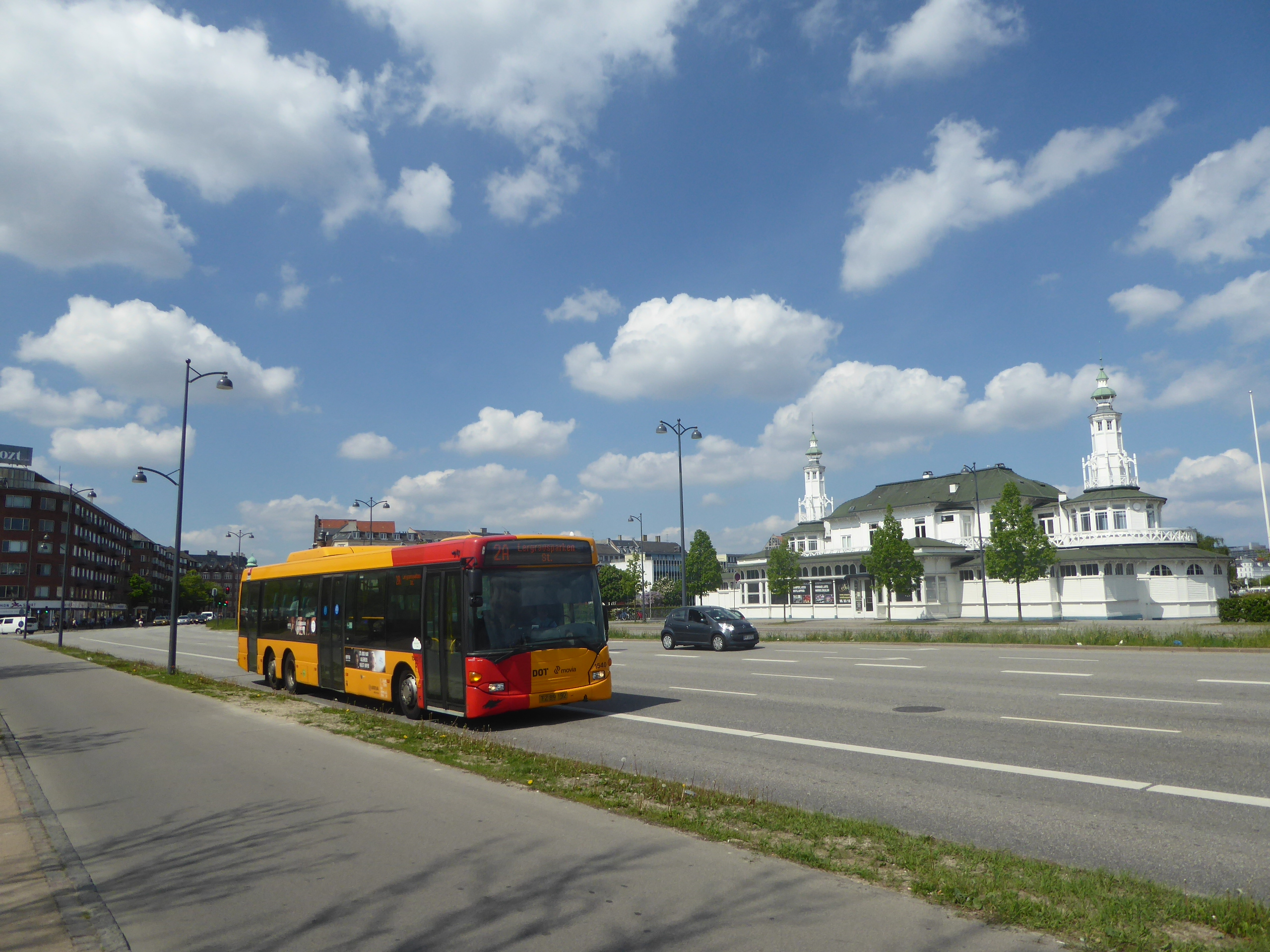 Movia bus line 2A on Gyldenløvesgade at Søpavillonen in Indre By in Copenhagen.